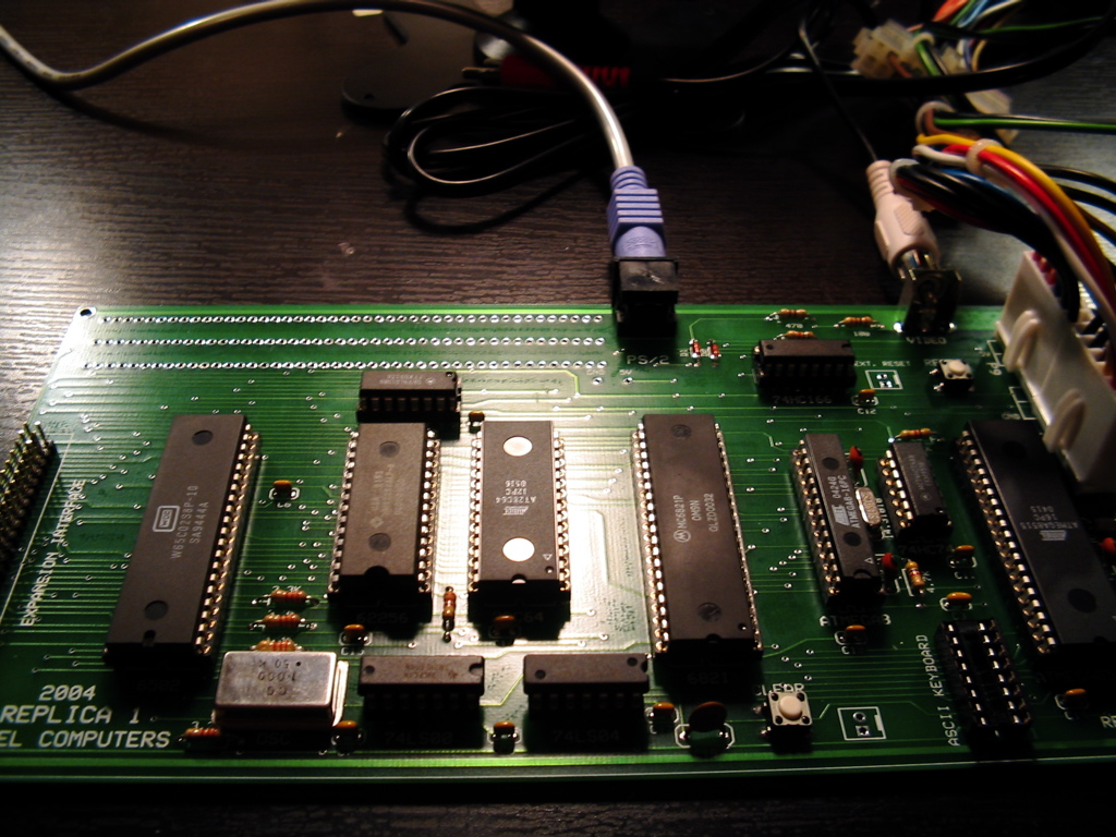 Closeup of assembled Replica-1 system. I still need to add the jumper pads for the external reset and clear-screen switches, as well as connectors to use an external +5V power supply instead of the big ATX unit.